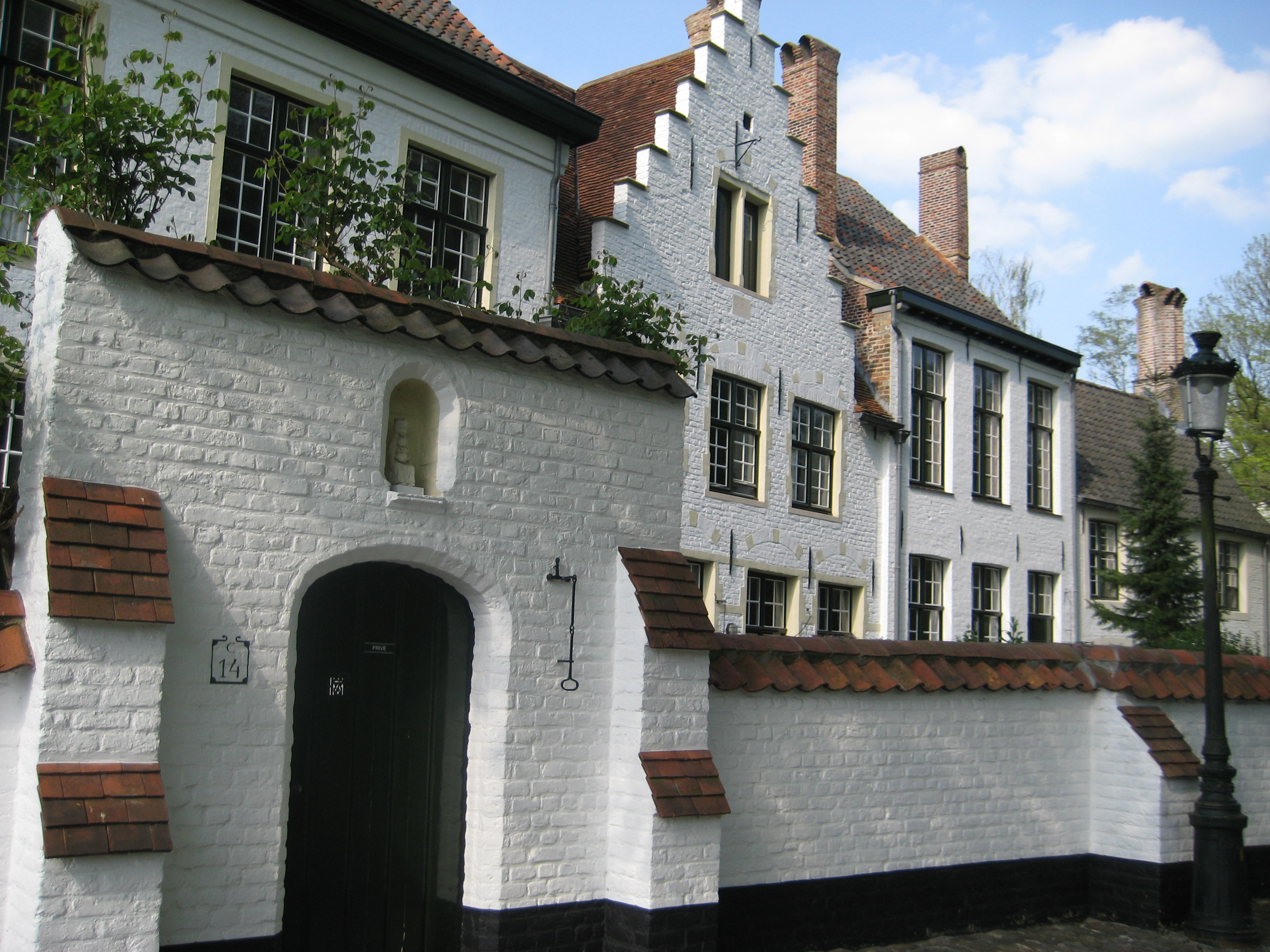 Beguinage of Bruges. Beguinal houses (from left to right) n° 14, 12, 10 and 8.